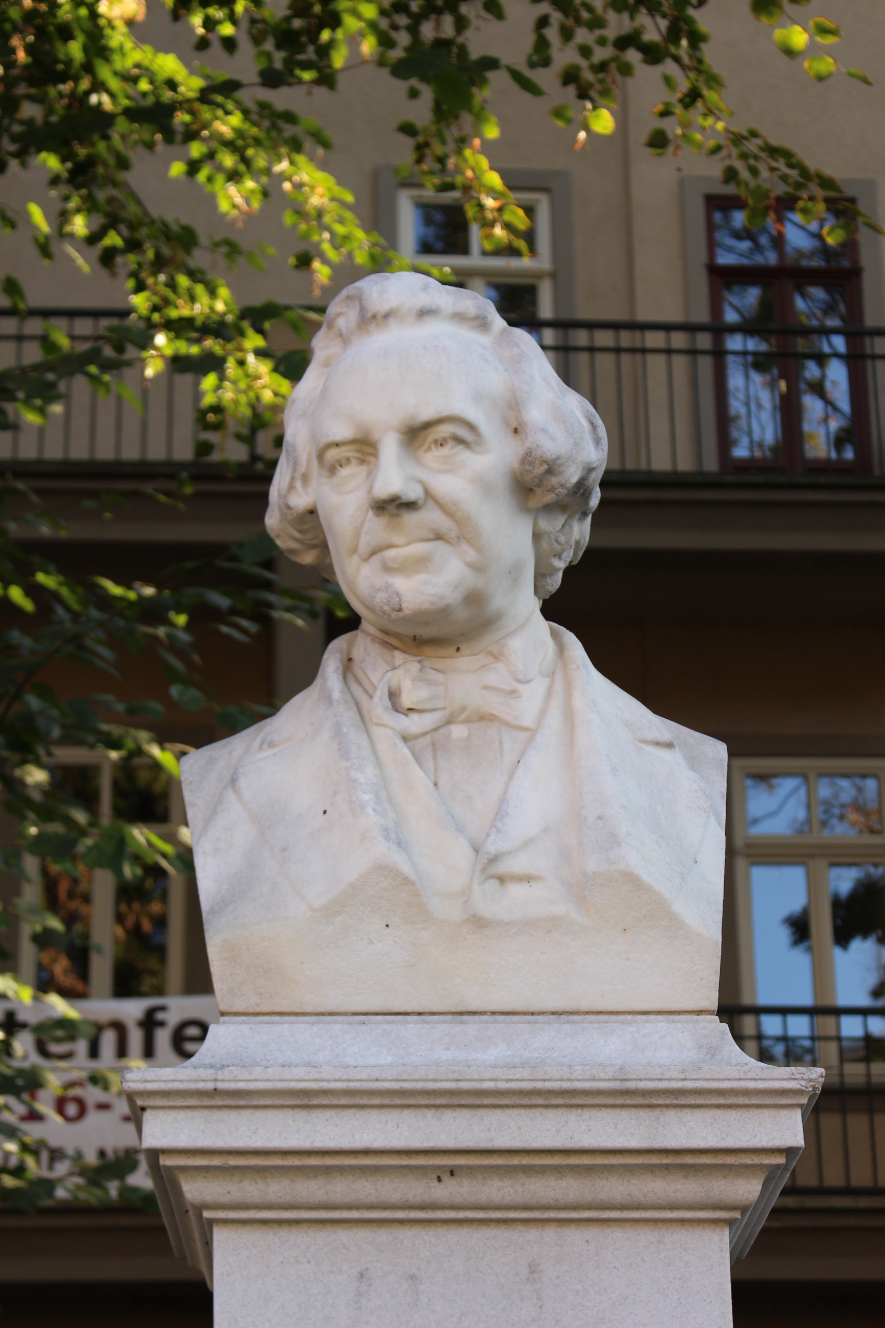 Statue of Karl Hase on Fürstengraben in Jena, Germany.